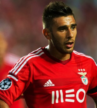 Eduardo Salvio